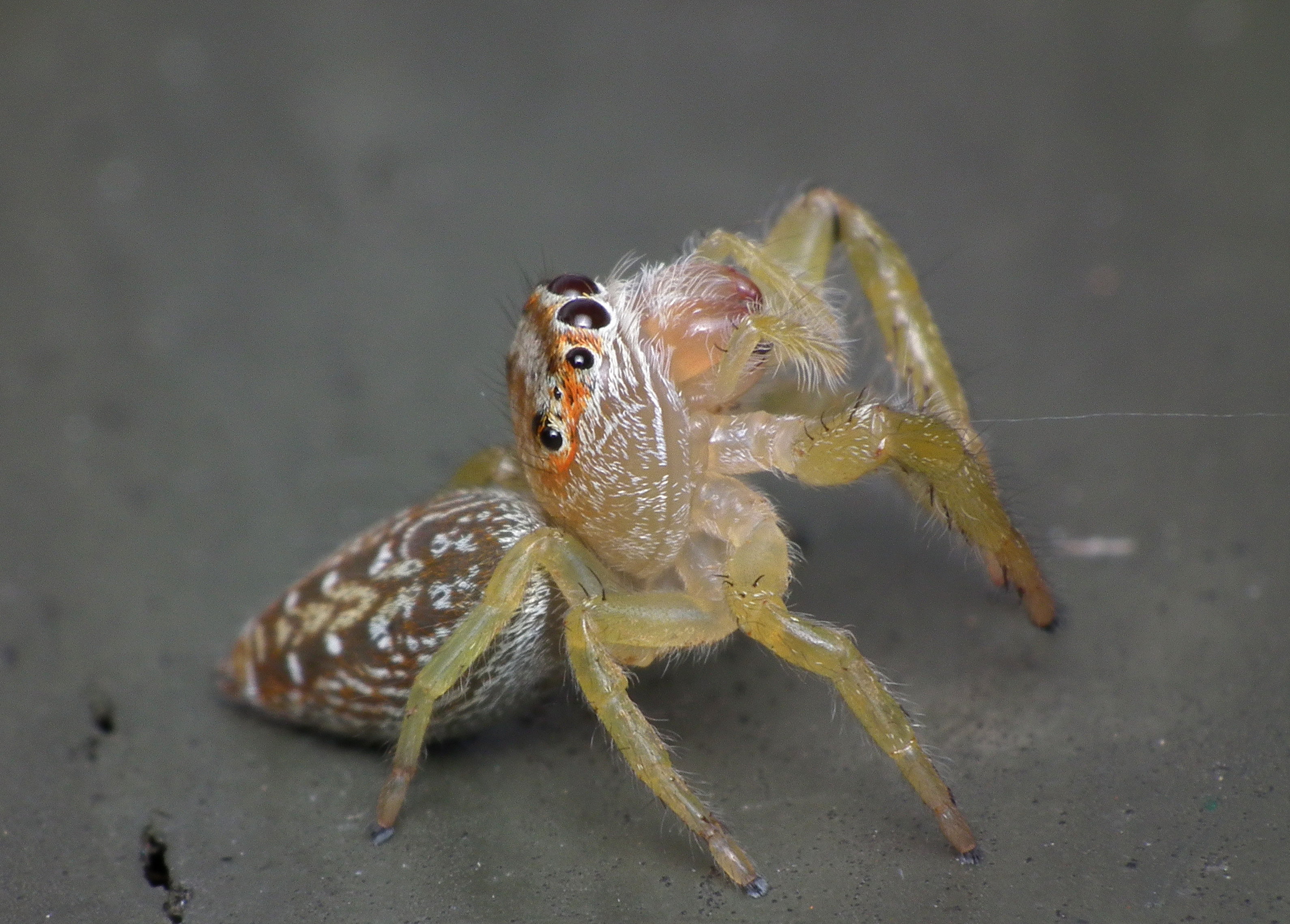 No place to jump up there though